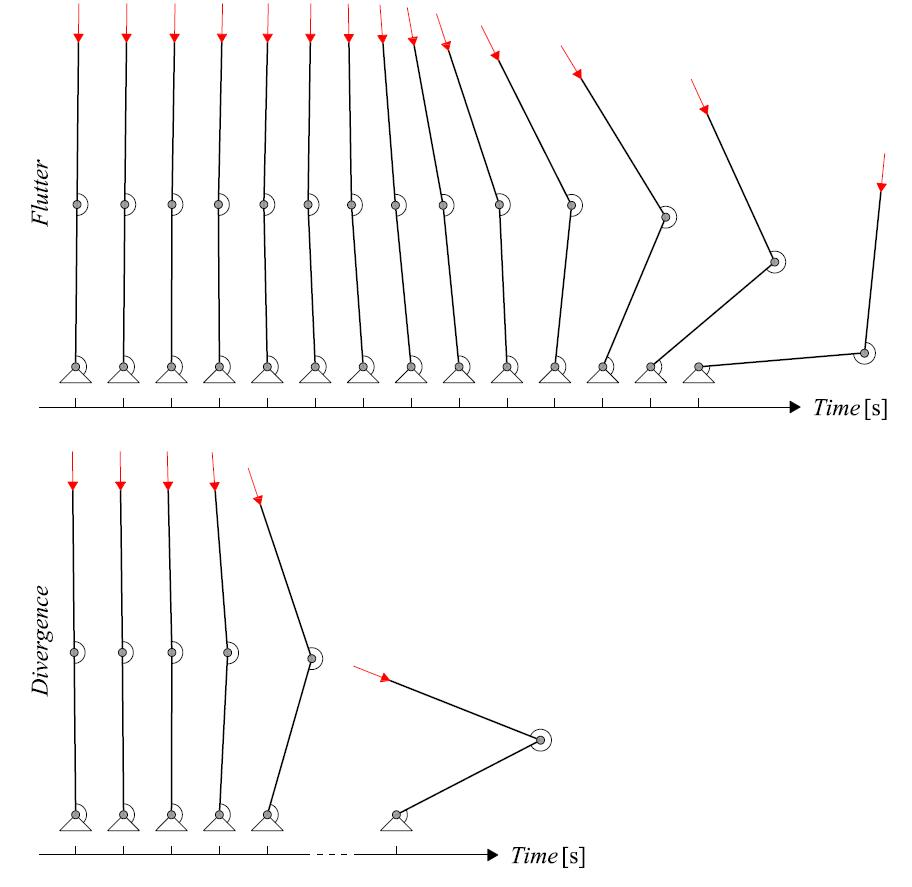 A sequence of deformed shapes at consecutive times intervals of a structure exhibiting flutter (upper part) and divergence (lower part) instability.